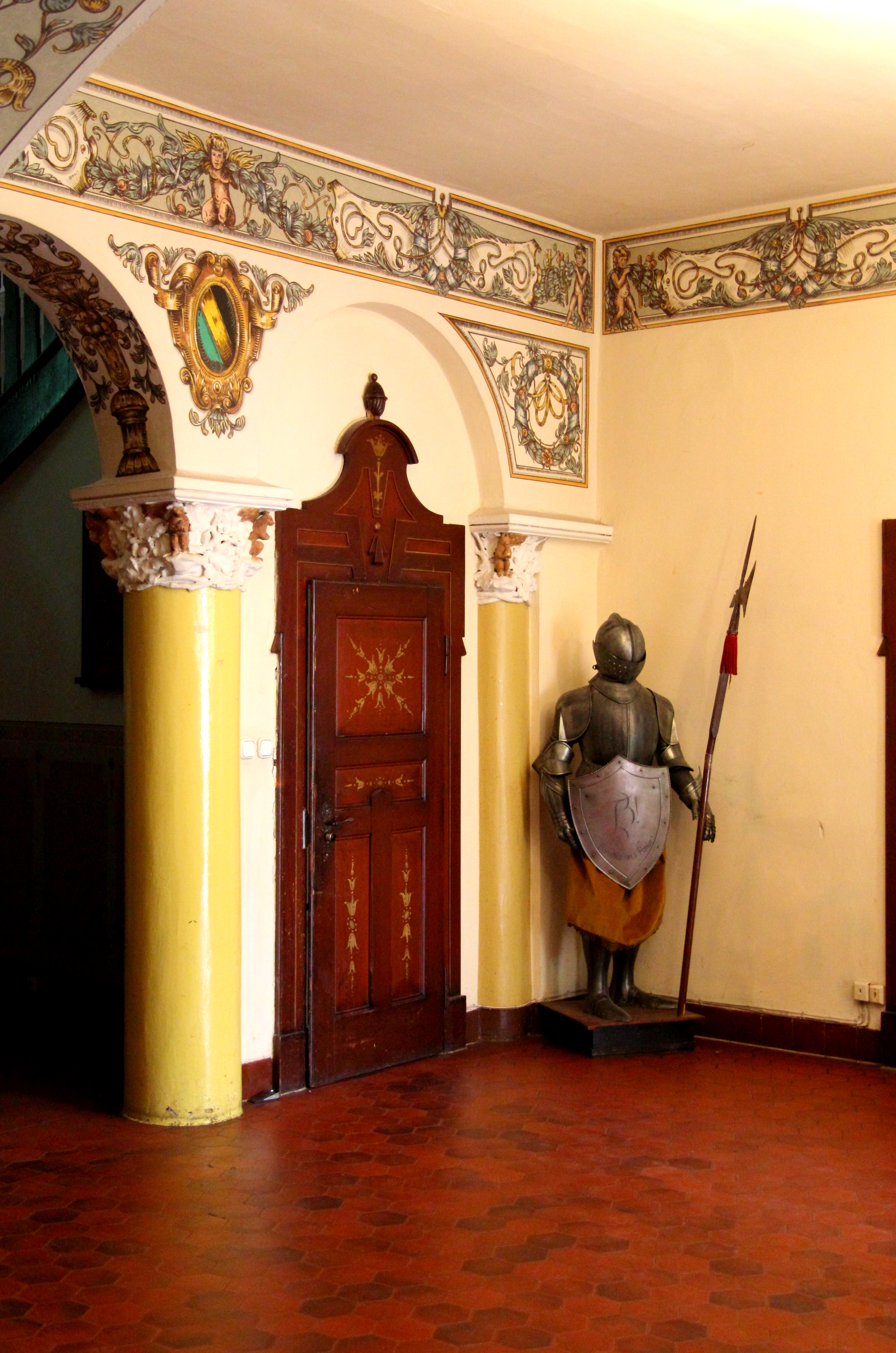 Entrance hall in the house of student fraternity Corps Baruthia Erlangen in Erlangen, Bavaria/Germany